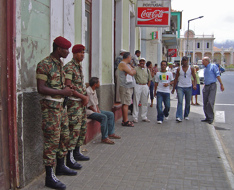 Military Police in Mindelo, Cape Verde. 2006.